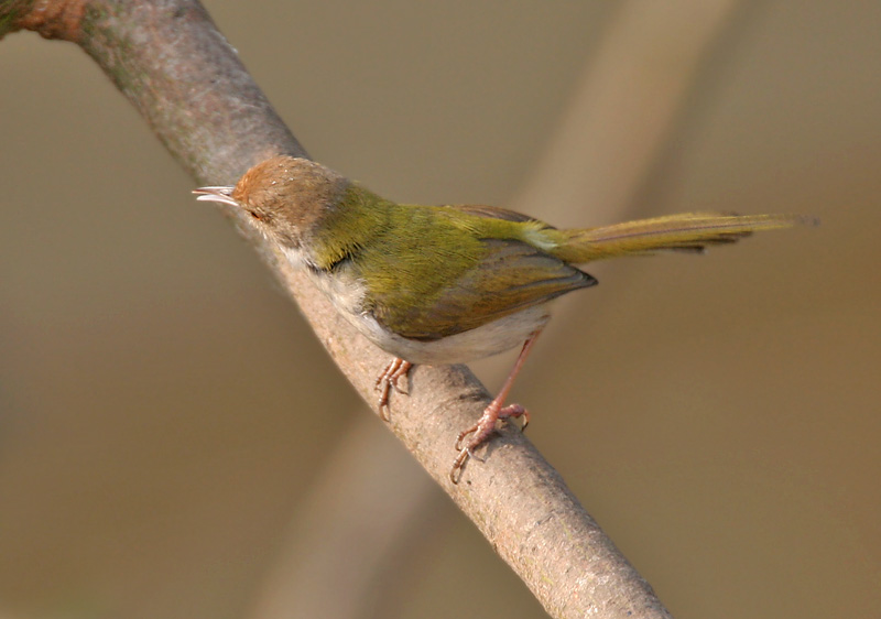 Common Tailorbird Orthotomus sutorius in Kolkata, West Bengal, India.